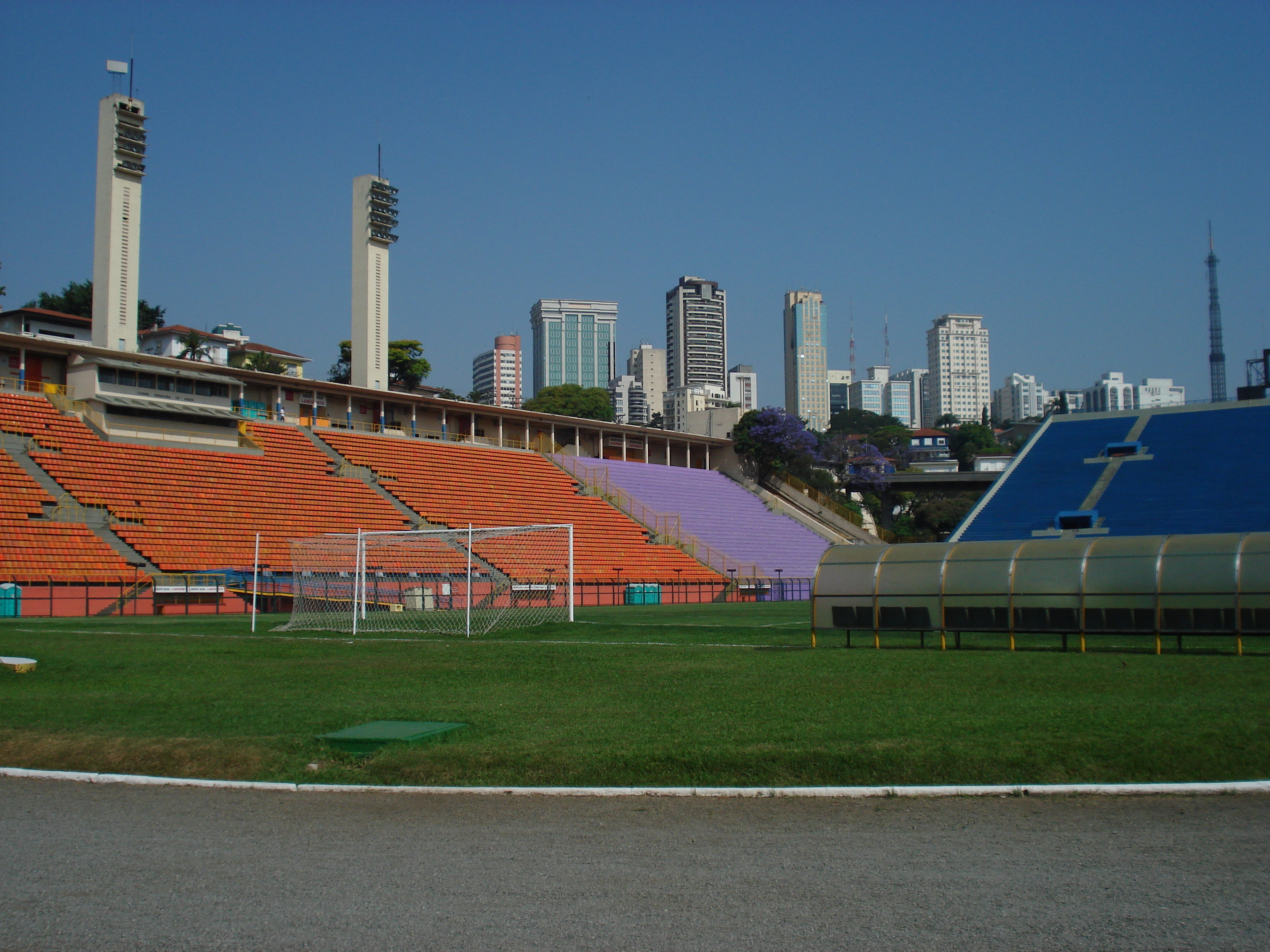 Estádio Municipal Paulo Machado de Carvalho, also knwon as Estádio do Pacaembu, in São Paulo, São Paulo, Brazil. View of Cadeira descoberta laranja and Arquibancada Sul.